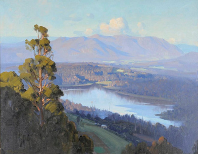 Painting by Ernest Buckmaster of Olinda in the Dandenong Ranges, near Melbourne, Australia, 1939